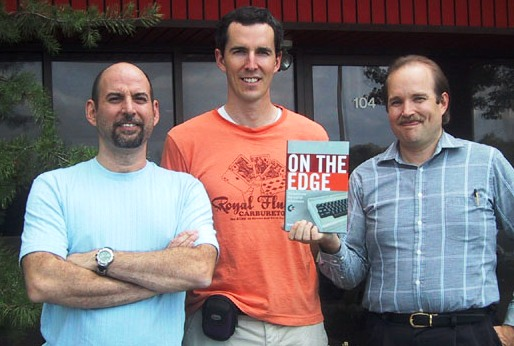 Bil Herd, Bob Russell and Brian Bagnal displaying the book "On the Edge".